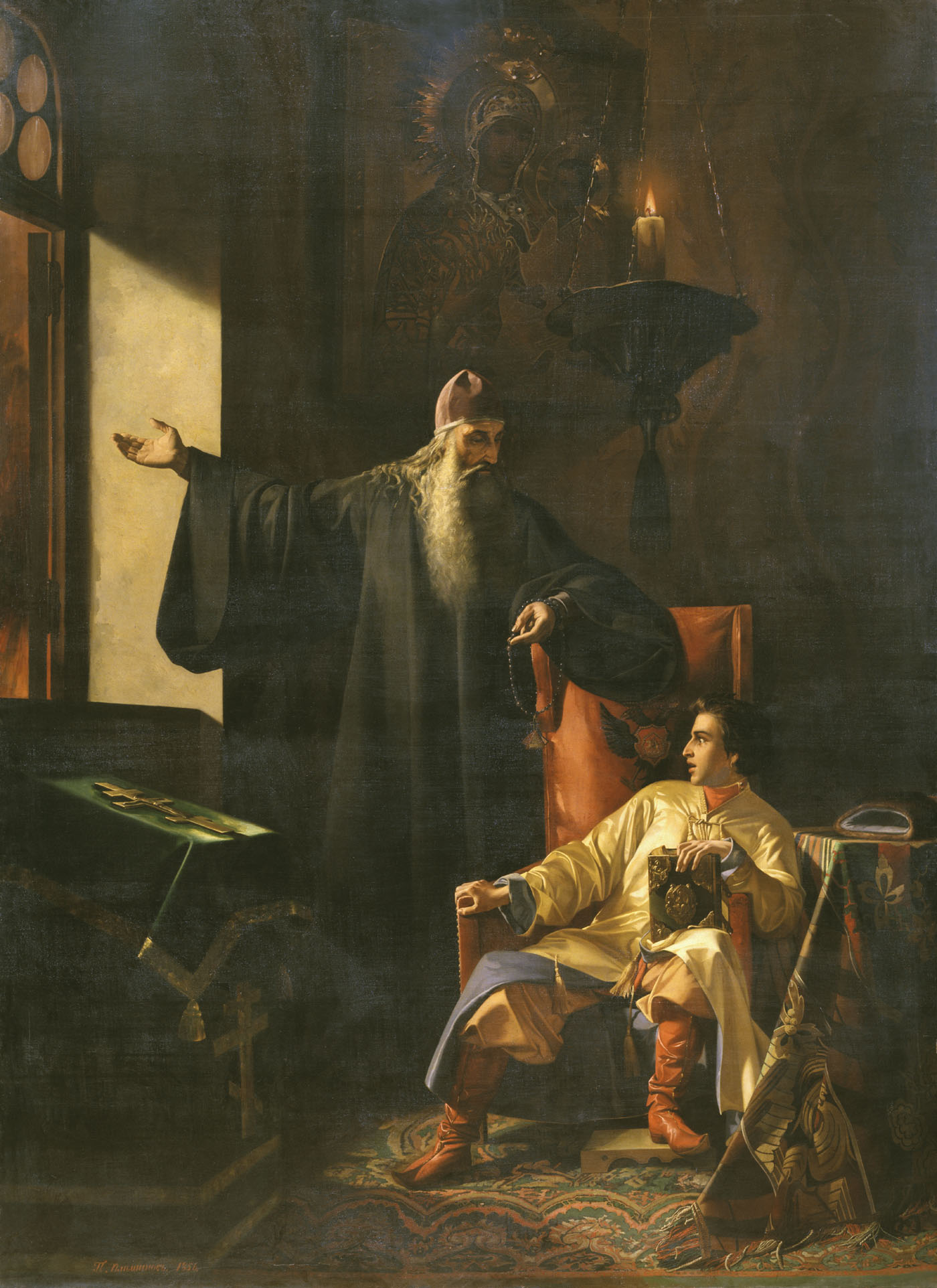 Tsar Ivan the Terrible and the priest Sylvester, 24 June, 1547 (oil painting, 1856).